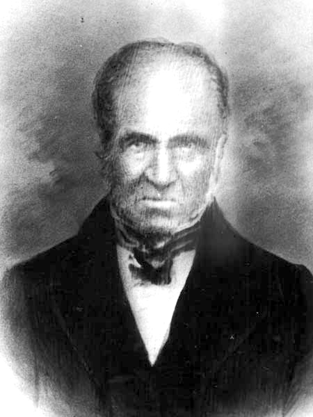 The scotsman and explorer Alexander Ross (1783-1856)